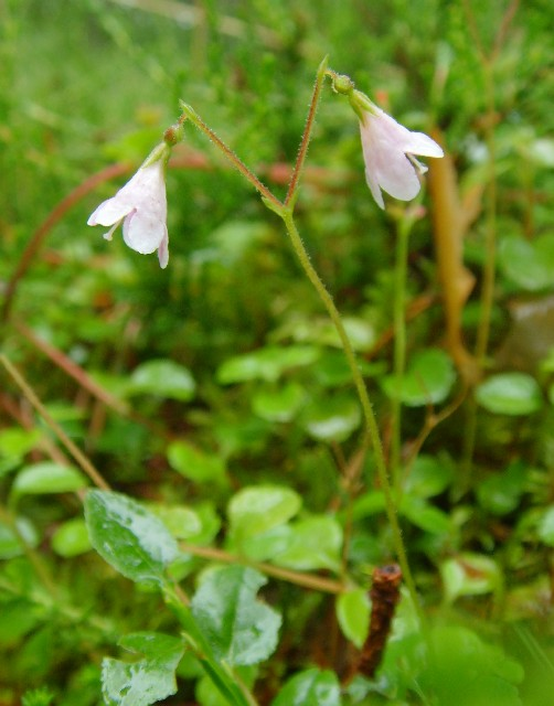 Twinflower (Linnaea borealis) Some of the largest colonies of this rare pinewood flower in Scotland are to be found in Curr Wood